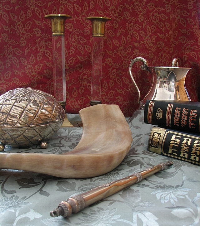 Photo by Gila Brand. Judaica - candlesticks, etrog box, shofar, Torah pointer, Tanach, natla (נַטְלָה aka keli)